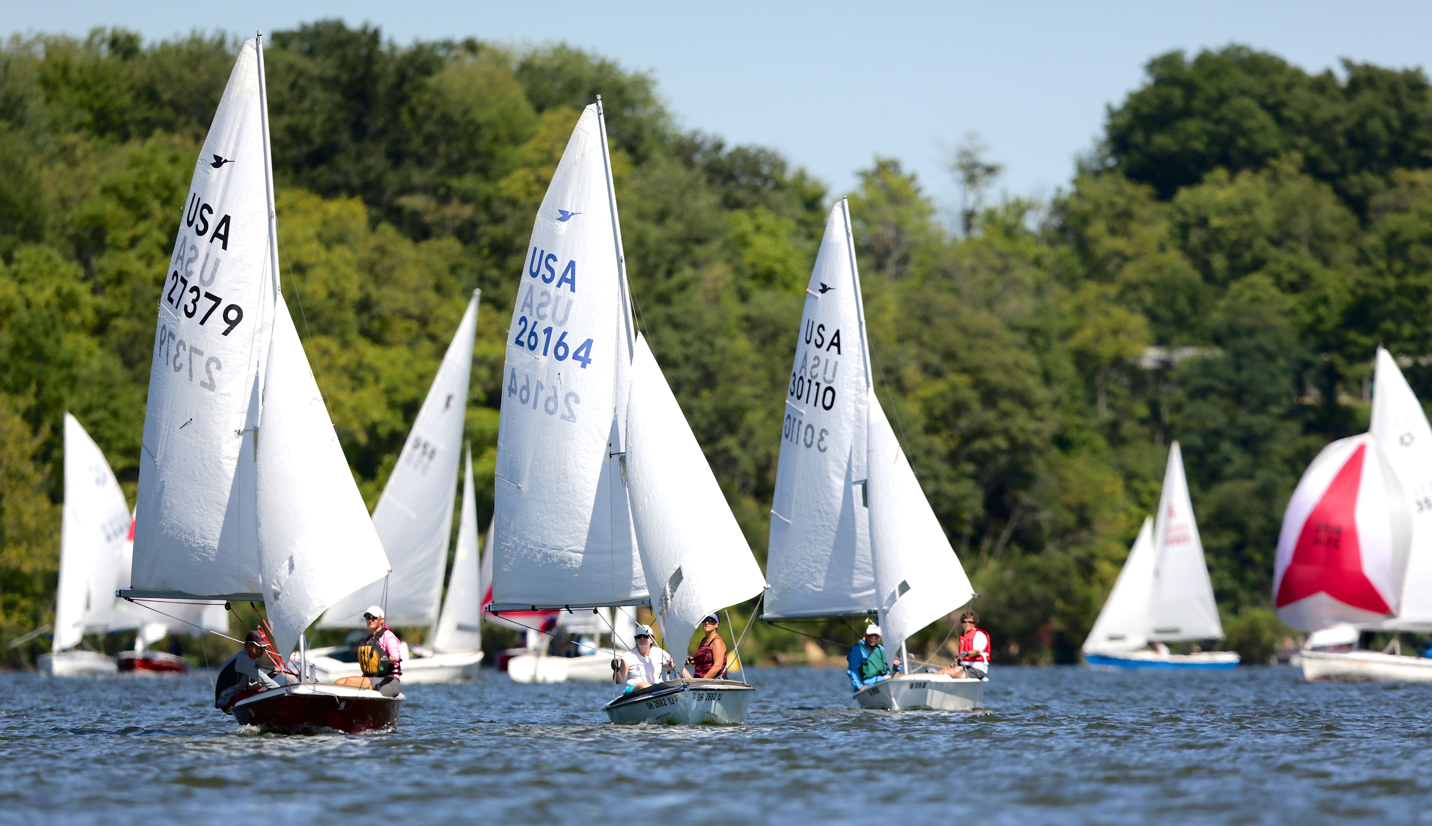 Snipes and other classes of the Cowan Lake Sailing Association racing on Cowan Lake on September 7, 2014